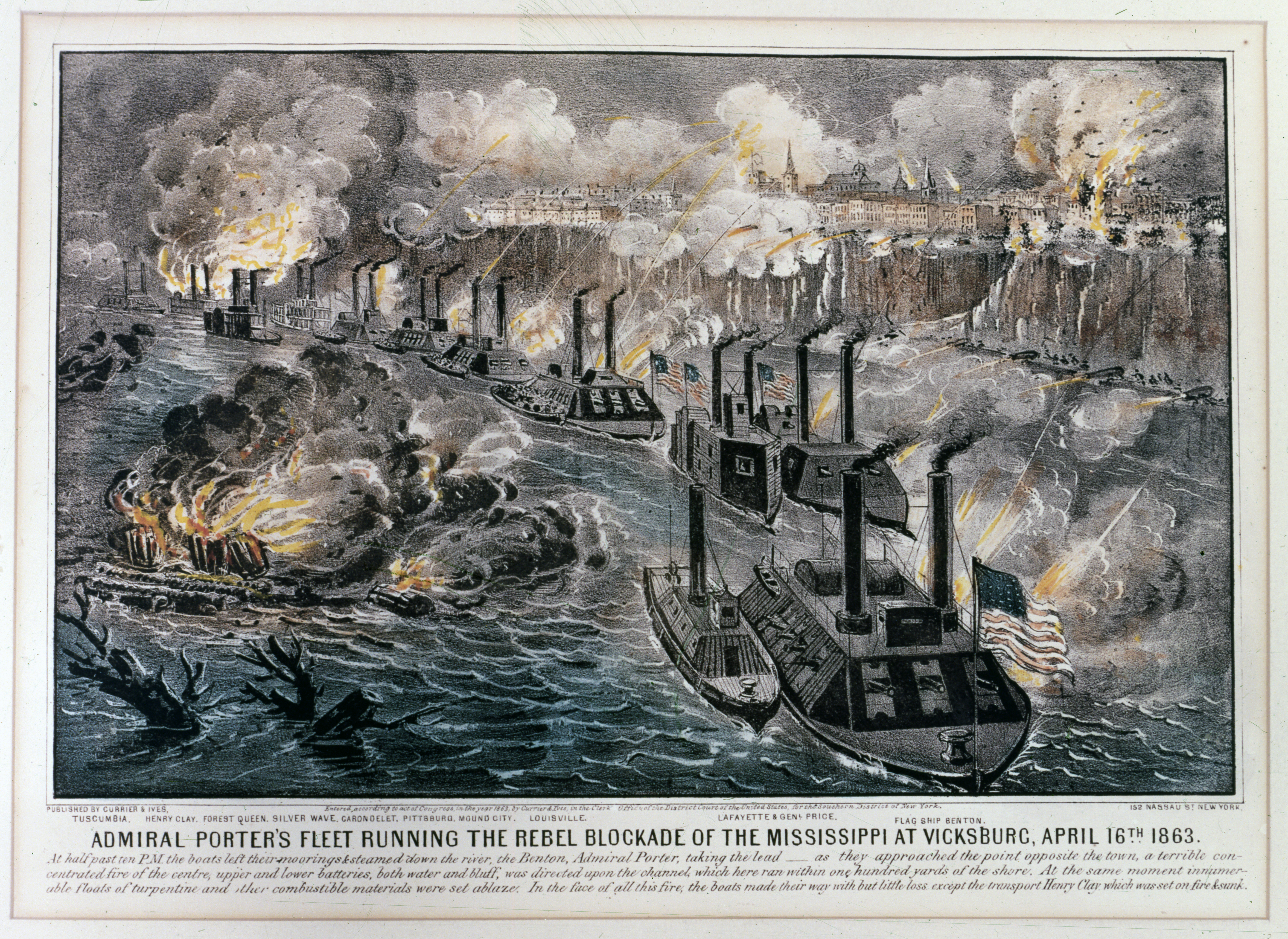 "Admiral Porter's Fleet Running the Rebel Blockade of the Mississippi at Vicksburg, April 16th 1863." Colored lithograph published by Currier & Ives, New York, 1863. Ships depicted are (from the front to the rear, all USS except as noted)): Benton (Flagship); Lafayette with General Price alongside; Louisville; Mound City; Pittsburg; Carondelet; transports Silver Wave, Forest Queen & Henry Clay; and Tuscumbia. Text under the print's title reads: "At half past ten P.M. the boats left their moorings & steamed down the river, the Benton, Admiral Porter, taking the lead -- as they approached the point opposite the town, a terrible concentrated fire of the centre, upper and lower batteries, both water and bluff, was directed upon the channel, which here ran within one hundred yards of the shore. At the same moment innumerable floats of turpentine and other combustible materials were set ablaze. In the face of all this fire, the boats made their way with but little loss except the transport Henry Clay which was set on fire & sunk."